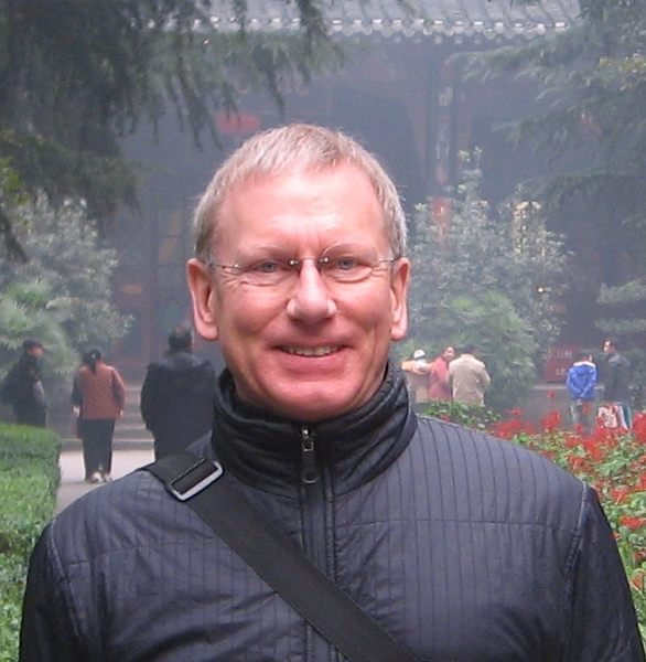 Chris Williams in Chengdu, China, with students and colleagues